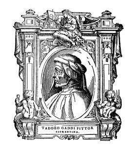 Illustratio from "Le Vite" by Giorgio Vasari, edition of 1568. For the artist portrayed see filename